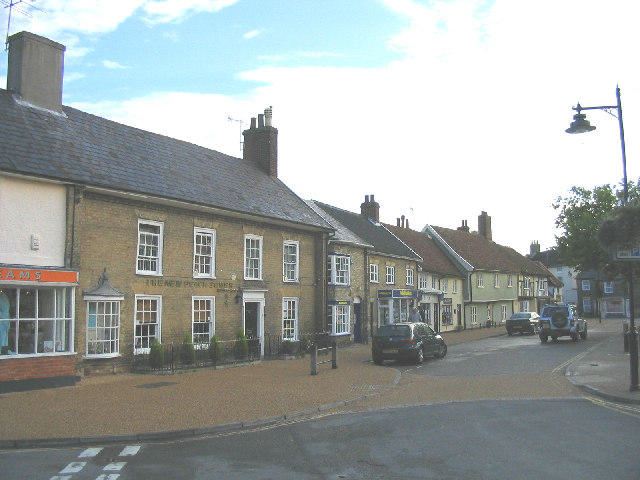 Wickham Market, Suffolk.